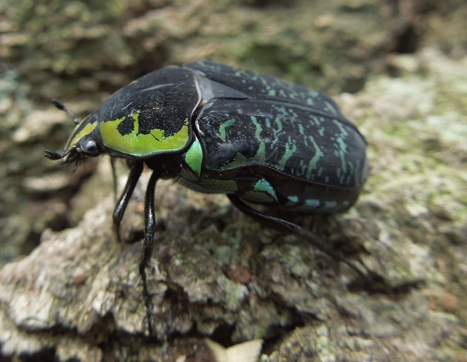 Euchroea coelestis